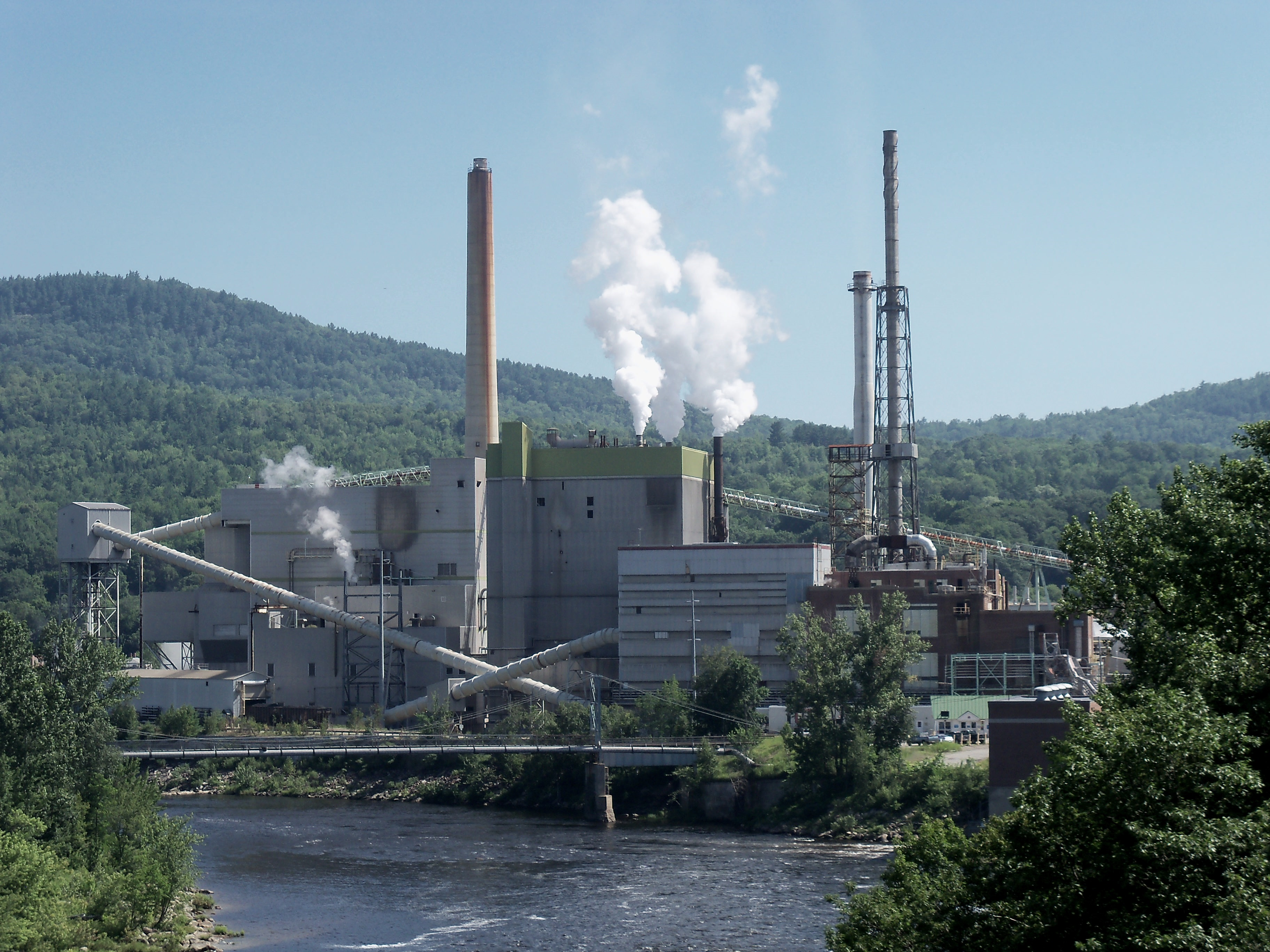 Paper mill along the Androscoggin River in Rumford, Maine, USA.